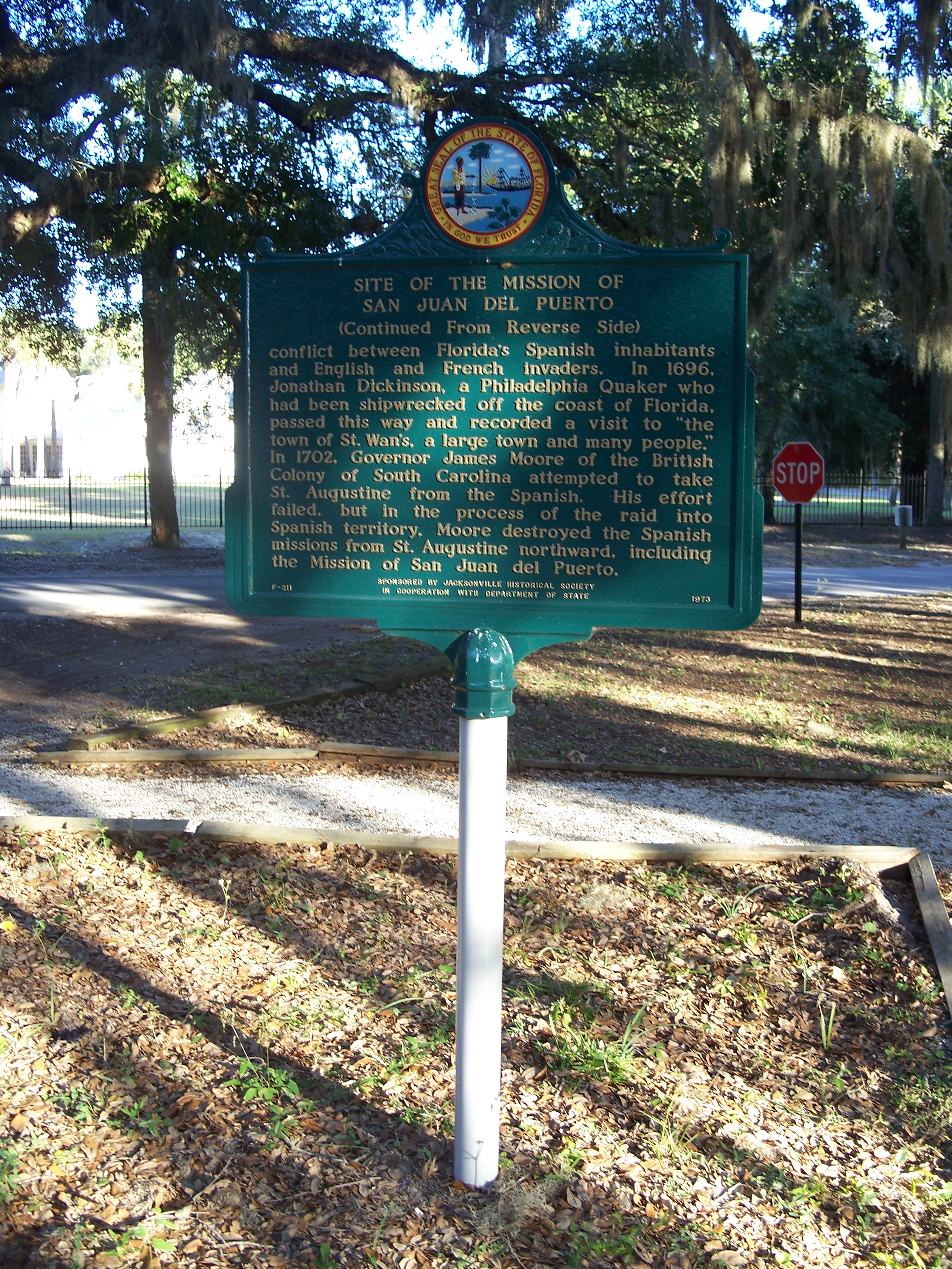 Fort George Island Cultural State Park: Historical marker about the San Juan del Puerto mission